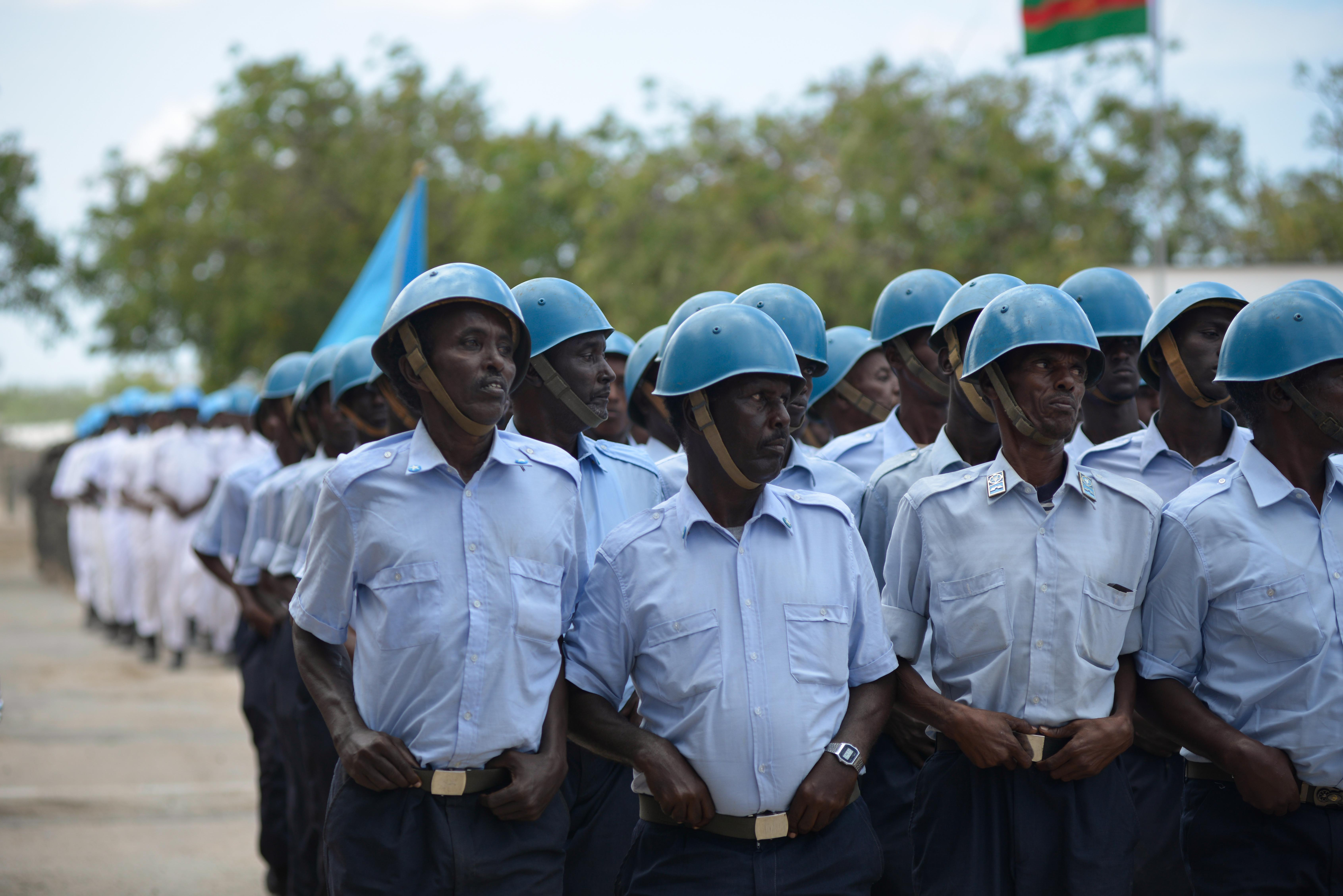 Soldiers belonging to the Somali National Army march in a parade at the Somali Armed Forces Headquarters to celebrate the army's 56th anniversary in Mogadishu, Somalia, on April 12. AMISOM Photo / Tobin Jones Personality rights warning Although this work is freely licensed or in the public domain, the person(s) shown may have rights that legally restrict certain re-uses unless those depicted consent to such uses. In these cases, a model release or other evidence of consent could protect you from infringement claims.